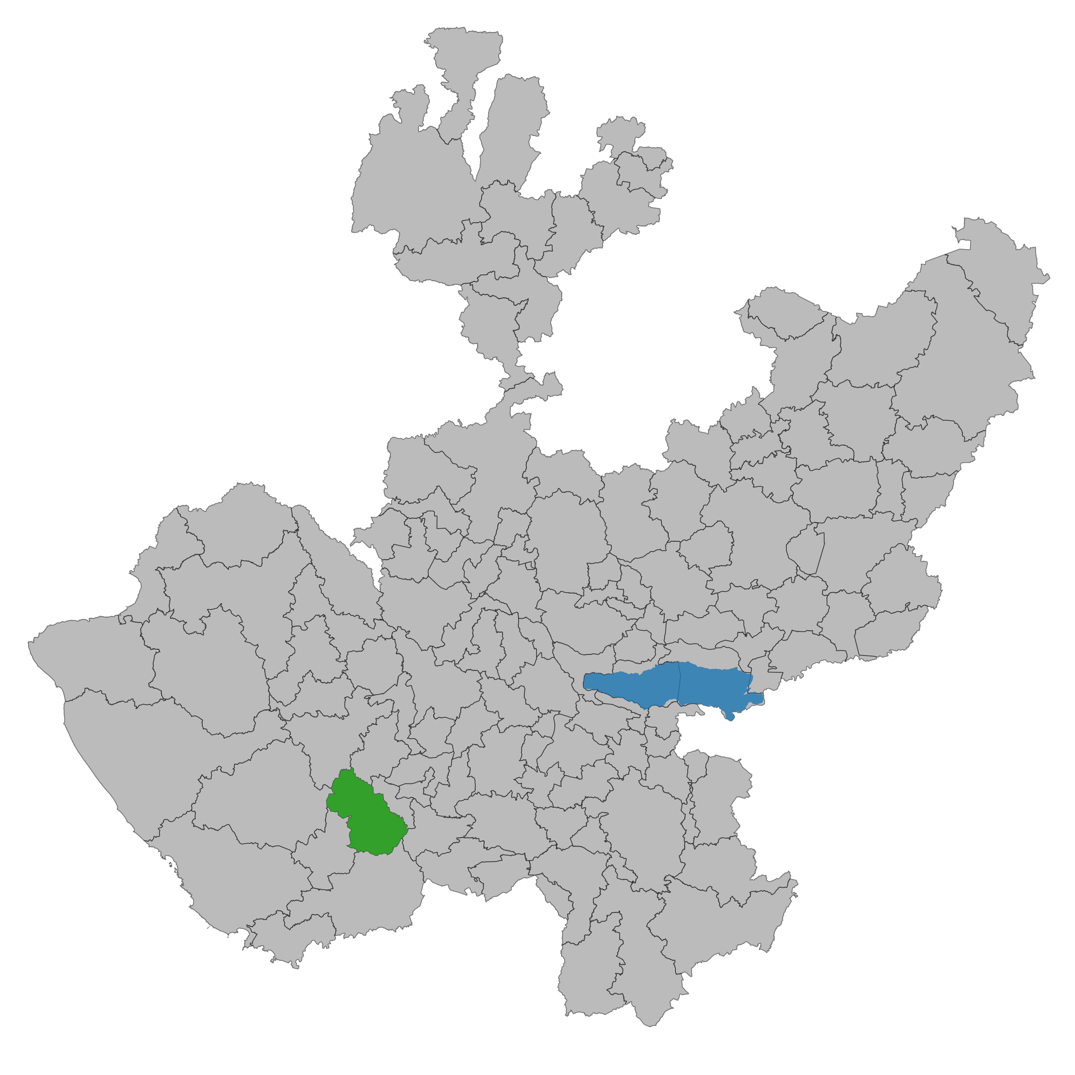 Municipality of Jalisco. Prepared with the software QGIS version 2.8.2 Wien & with information of SCINCE 2010 version 05/2013